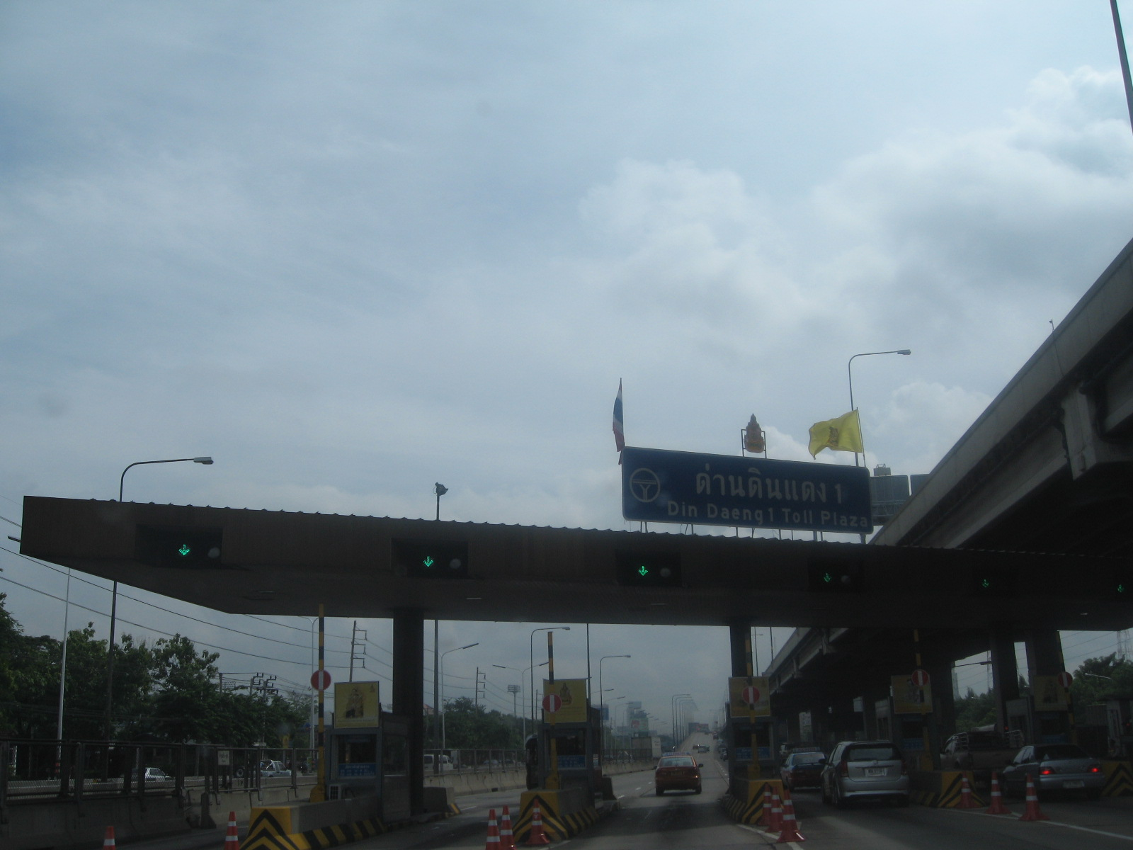 Din Daeng 1 Toll Plaza, Bangkok Airport Tollway.